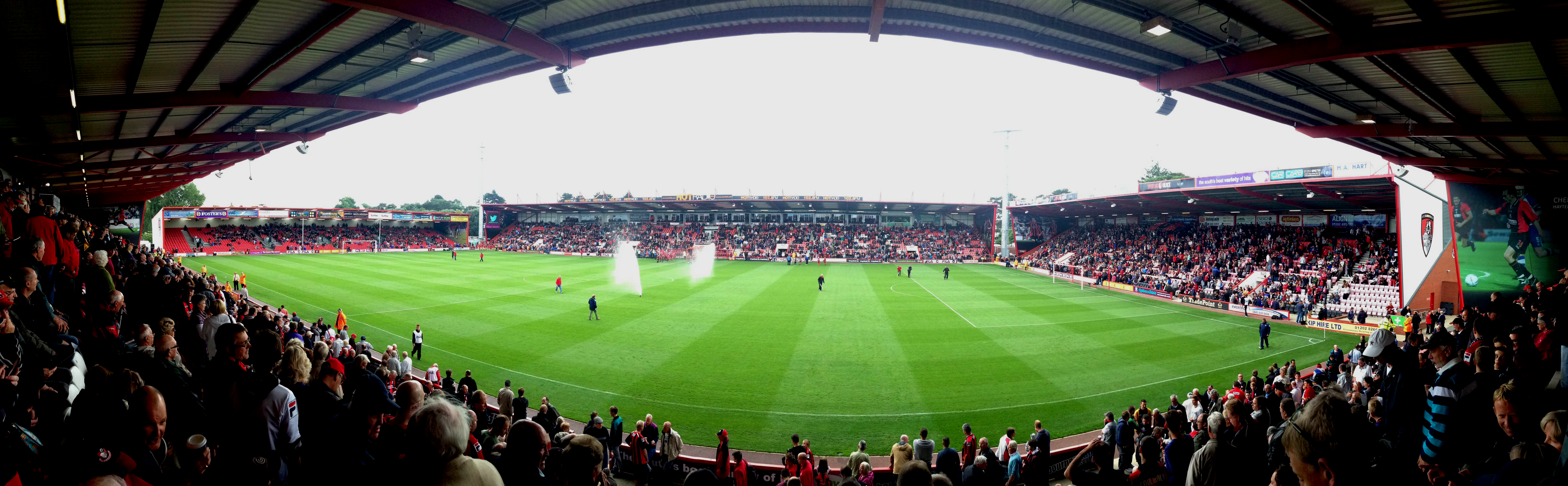 Panorama of Goldsands Stadium (Dean Court) from East Stand. Prior to Football League Championship fixture 14/9/2013 AFC Bournemouth v Blackpool FC.